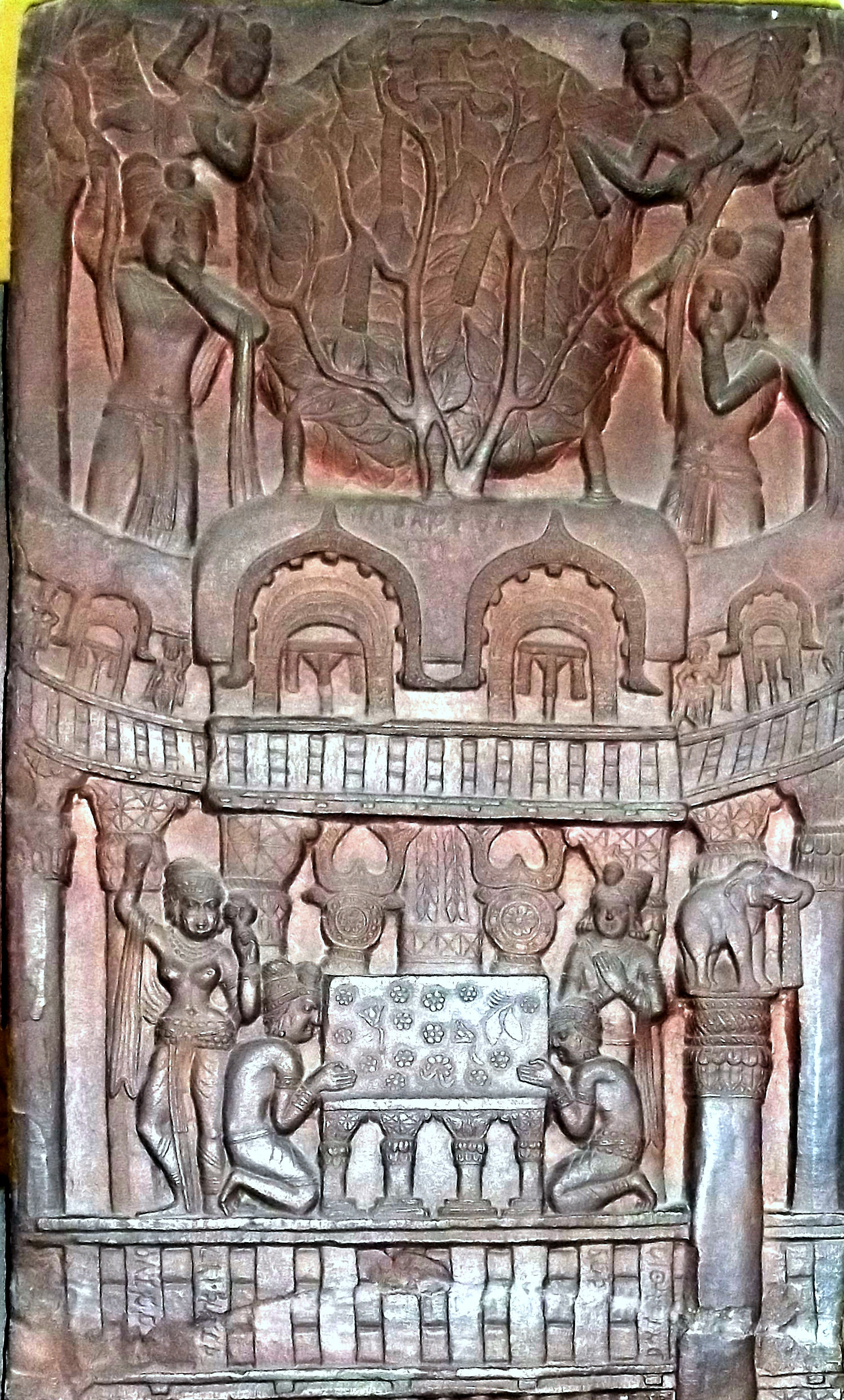 Adoration of the Diamond Throne and the Bodhi Tree Bharhut relief. The inscription between the Chaitya arches reads: "Bhagavato Sakamunino/ bodho" ie "The building round the Bodhi tree of the Holy Sakamuni (Shakyamuni)" Inscription B23